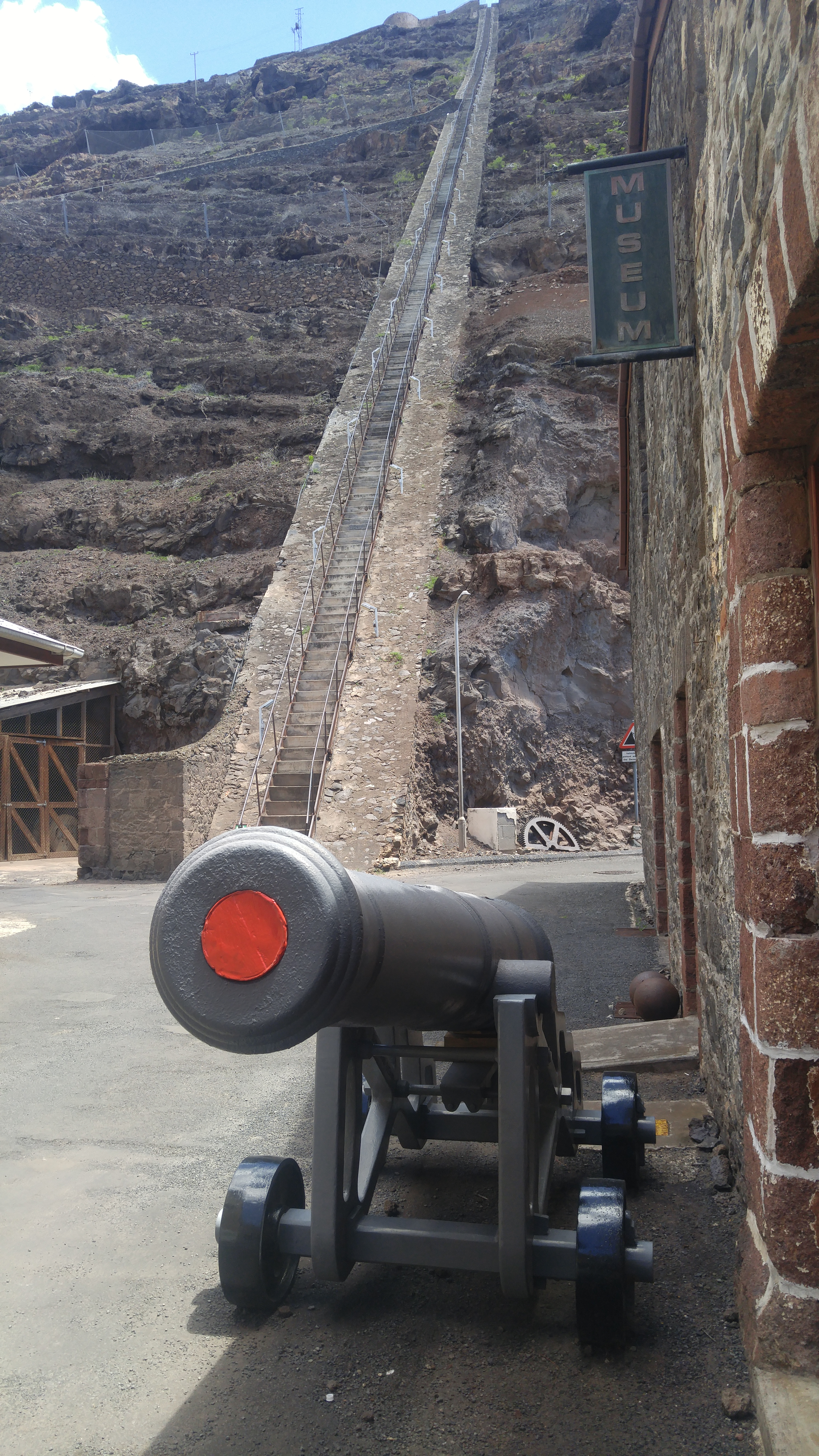 Jacob's Ladder in Jamestown just behind the Saint Helena Museum March 2020